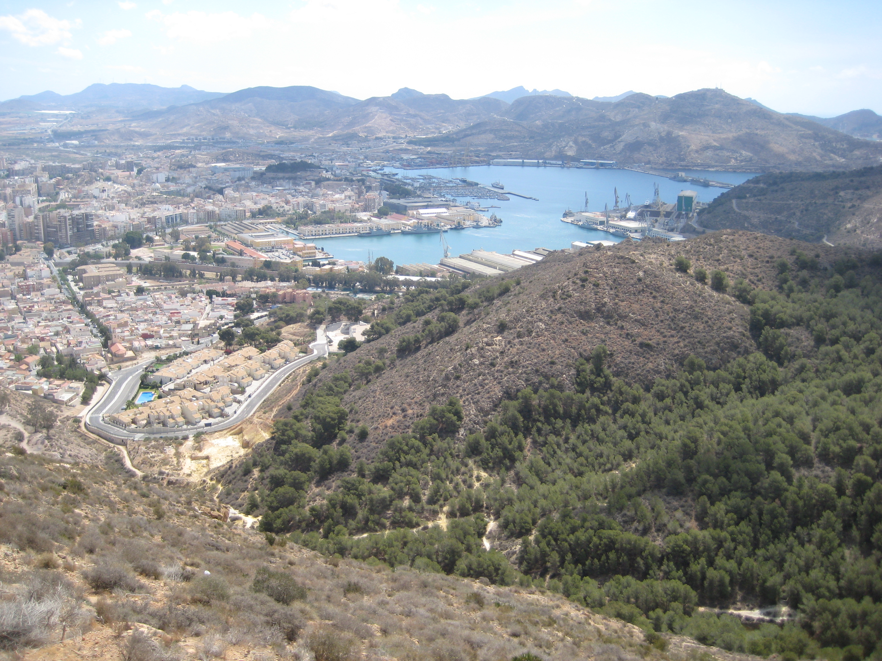 View of the port of Cartagena from the castle of the Atalaya